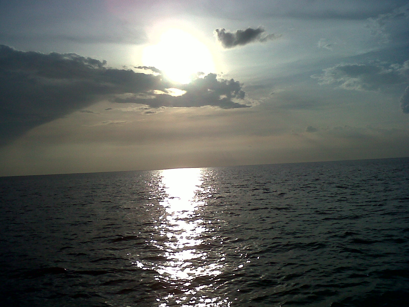 Photo taken from the boat Argonauta, Anzoategui - Venezuela Sea